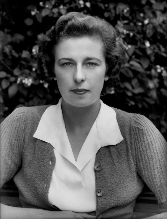 Portrait of American tennis player Gracyn Wheeler Kelleher in 1938.